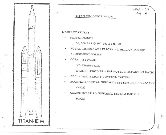 Schematic of the Titan IIIM rocket, which would have been used to launch the Manned Orbiting Laboratory/KH-10 Dorian system.